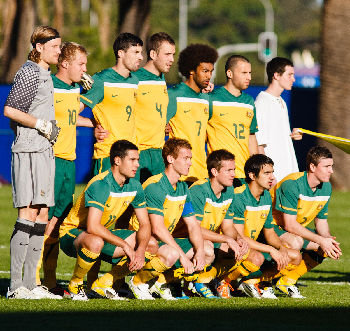 The starting squad for the Australian Olympic Football team match against Yemen in 2011 at Gosford, New South Wales.